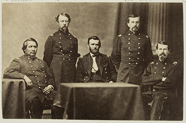 Title: General Ulysses S. Grant (1822-1885) and Staff [Ely Samuel Parker (1828-1895), Adam Badeau (1831-1895), General Grant, Orville Elias Babcock (1835-1884), Horace Porter (1837-1921)]. Work Type: photograph; carte-de-visite. Creator: Whipple, John Adams (1822 - 1891), American. Date: 1865-1874. Dimensions: sight: 6 x 10 cm (2 3/8 x 3 15/16 in.). Materials/Techniques: Albumen silver print on card. Repository: Harvard Art Museum.